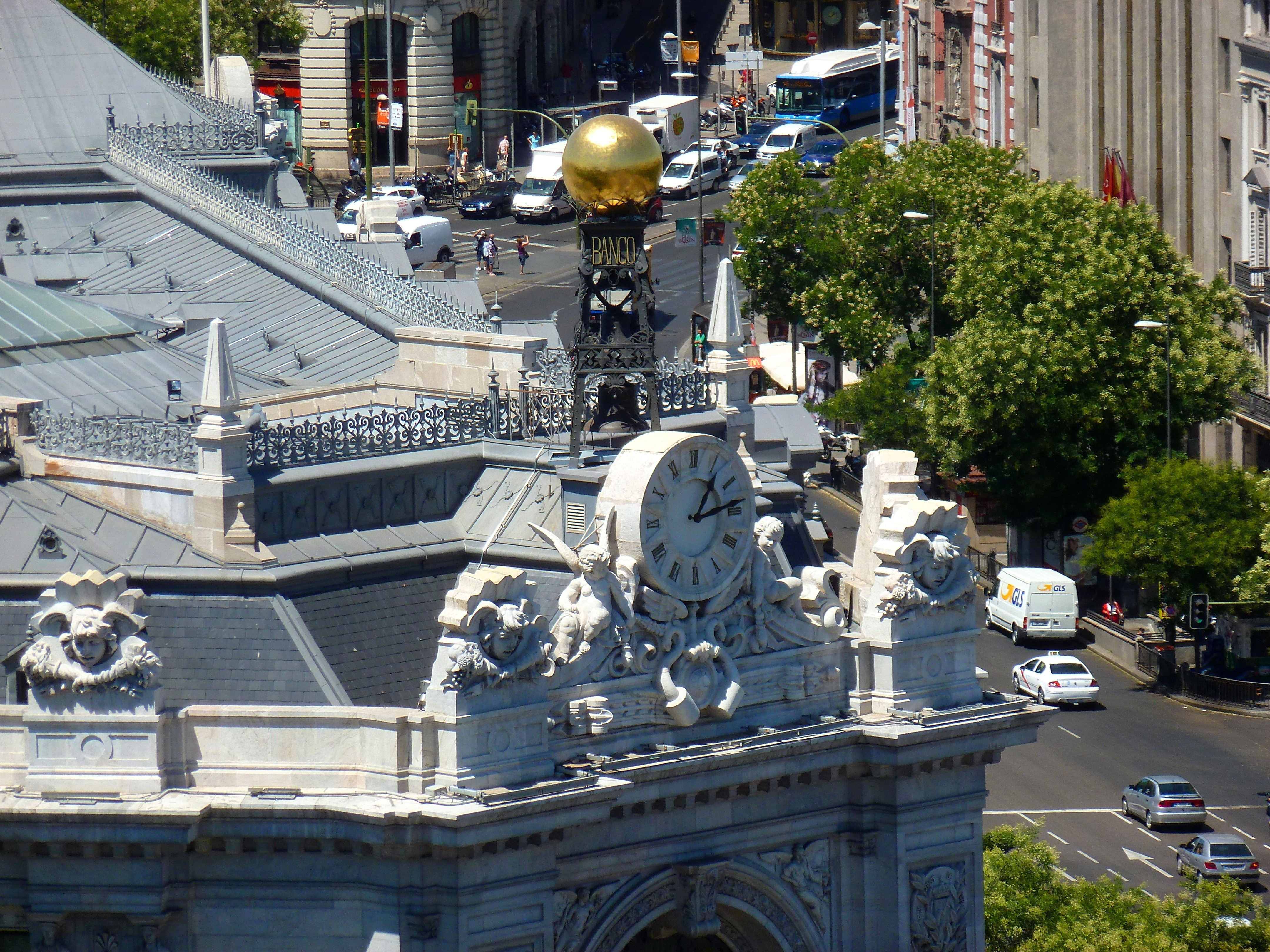 Clock of the façade of the headquarters of the Bank of Spain in Madrid.